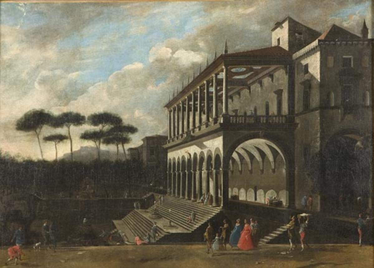 An idealized oil painting by Viviano Codazzi (or possibly Domenico Gargiulo) of the Villa Poggio Reale in Naples, painted between 1604 and 1675.